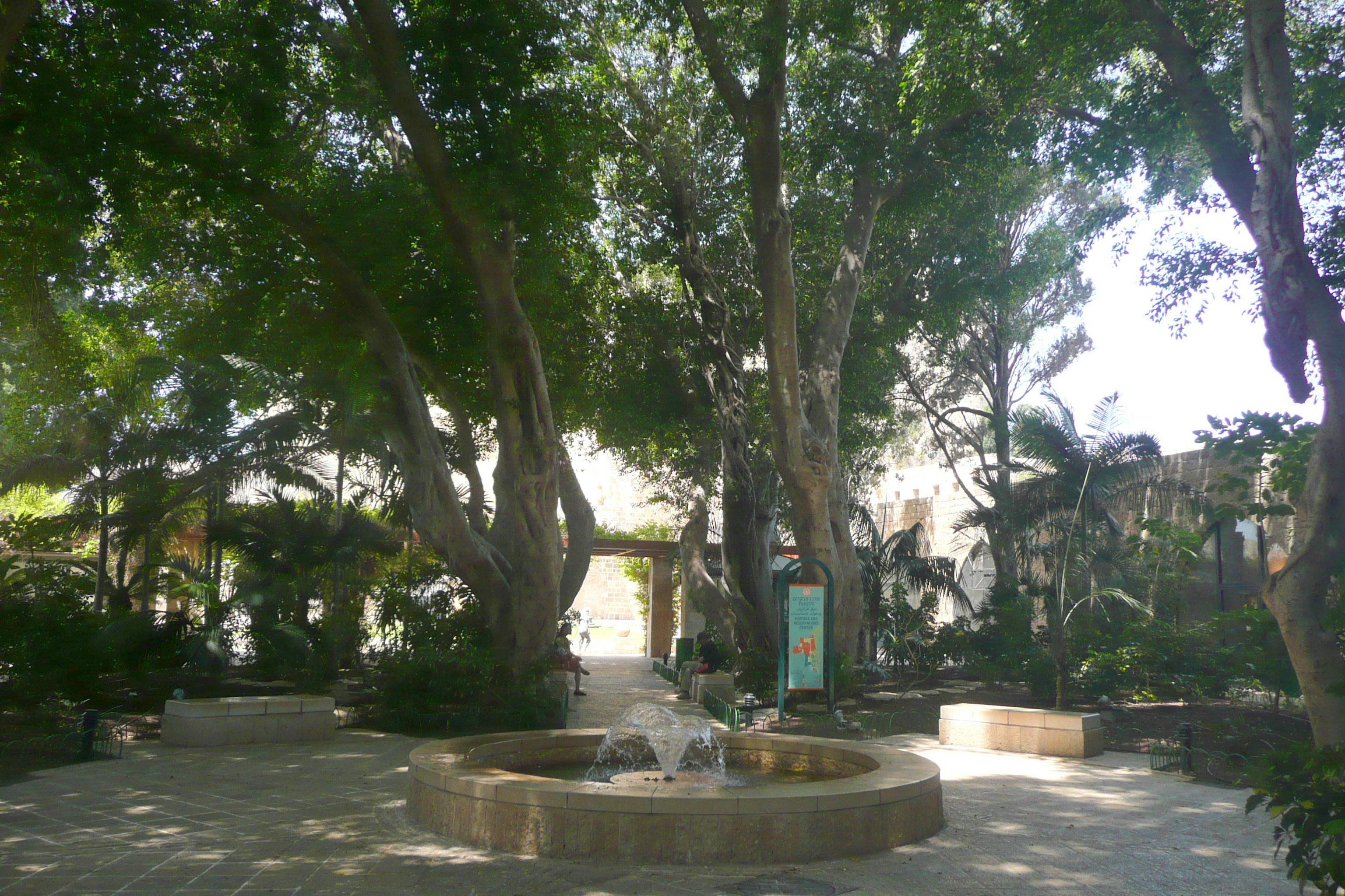 The Enchanted Garden